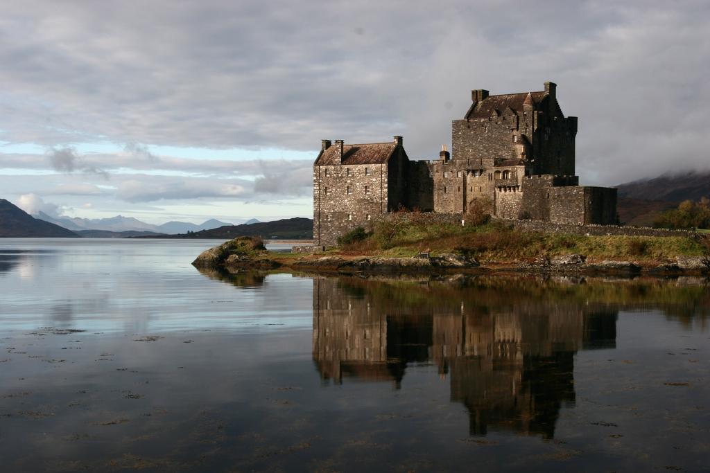 Eilean Donan Castle at Loch Duich in Scotland